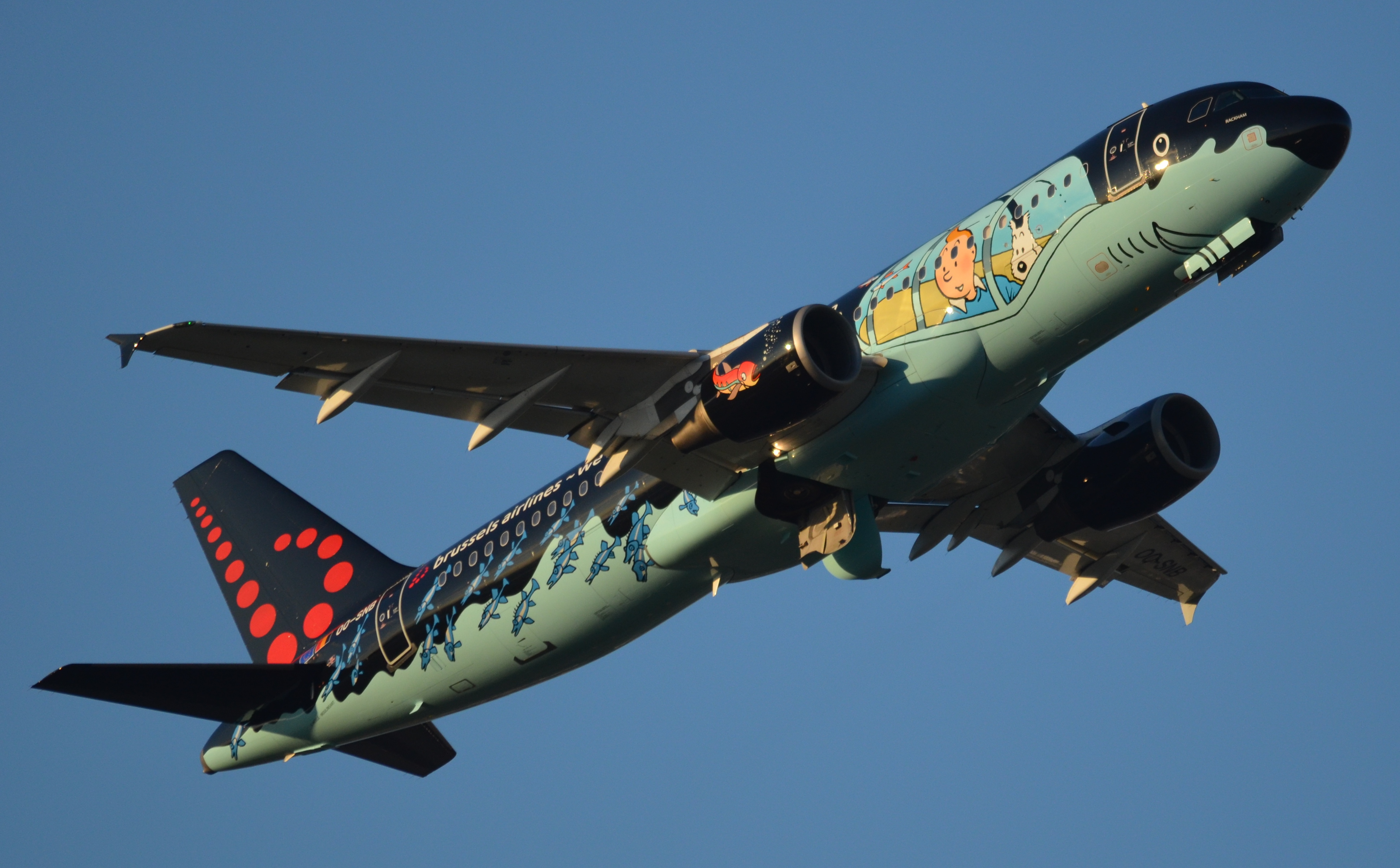 Brussels Airlines Airbus A320 (OO-SNB) in special Tintin livery after take off at Toulouse Blagnac International Airport